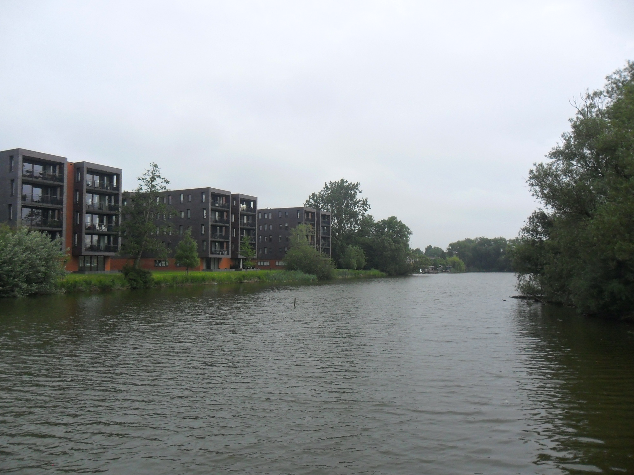 Spoordok Sneek